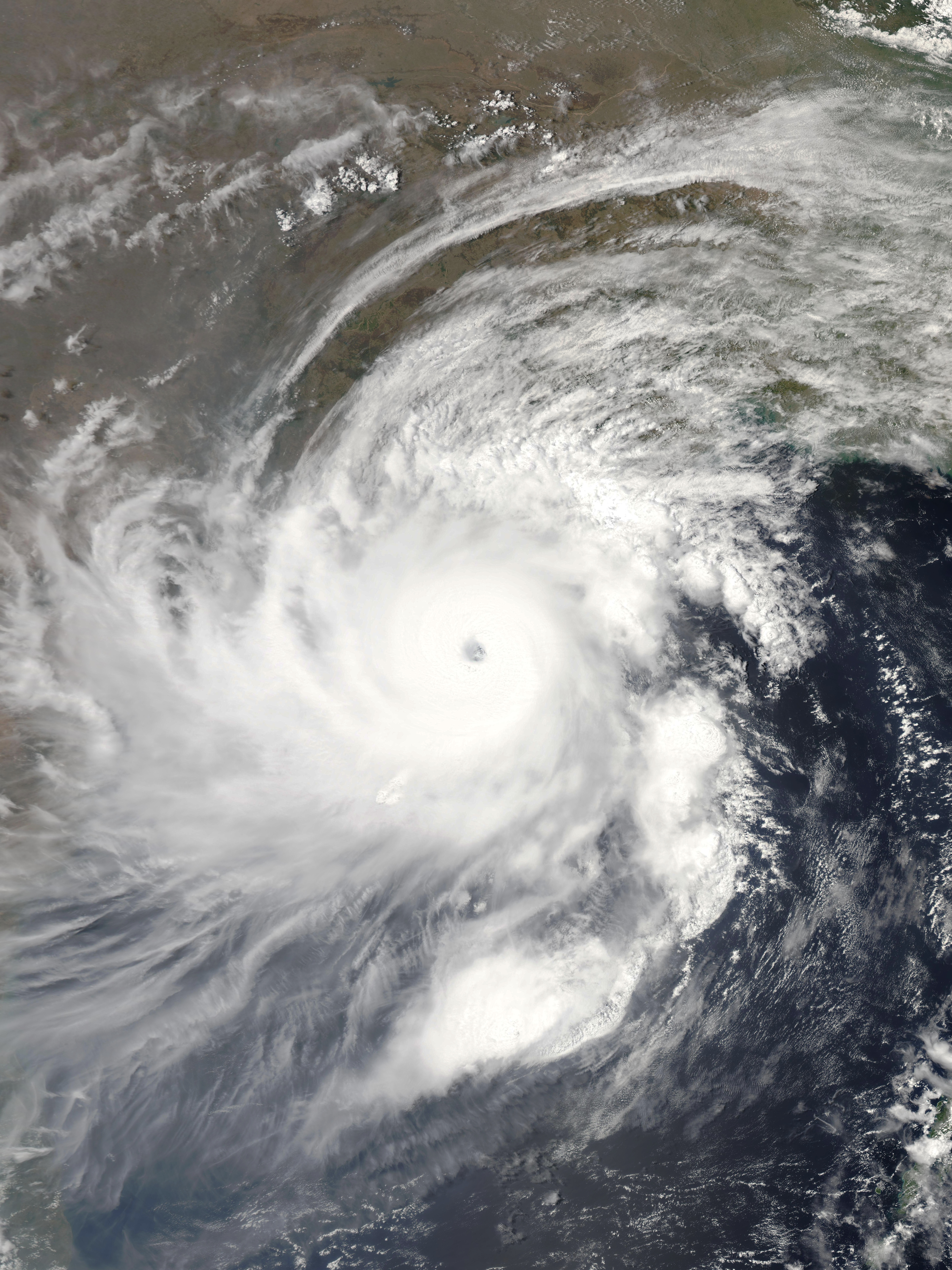 Extremely Severe Cyclonic Storm Fani approaching peak intensity over the central western Bay of Bengal, near the eastern coast of India, on 2 May 2019. The system has three-minute sustained winds of 185 km/h (115 mph), and one-minute sustained winds of 215 km/h (130 mph), making it the equivalent of a Category 4 major hurricane on the Saffir-Simpson hurricane wind scale.